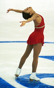 Michelle Kwan competes her second long program at the 2002 Grand Prix Final in Kitchener, Ontario.